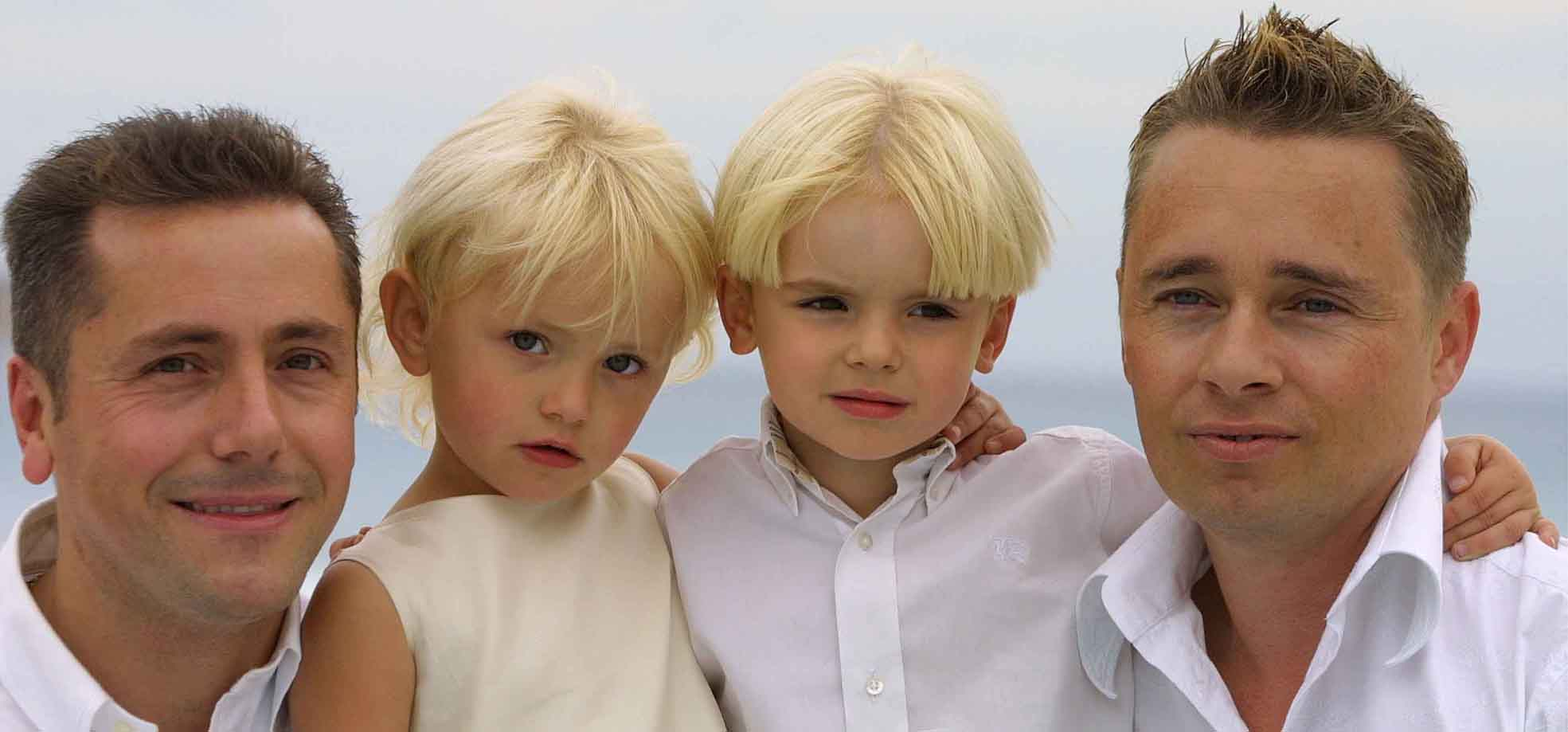 Tony, Saffron, Aspen, Barrie